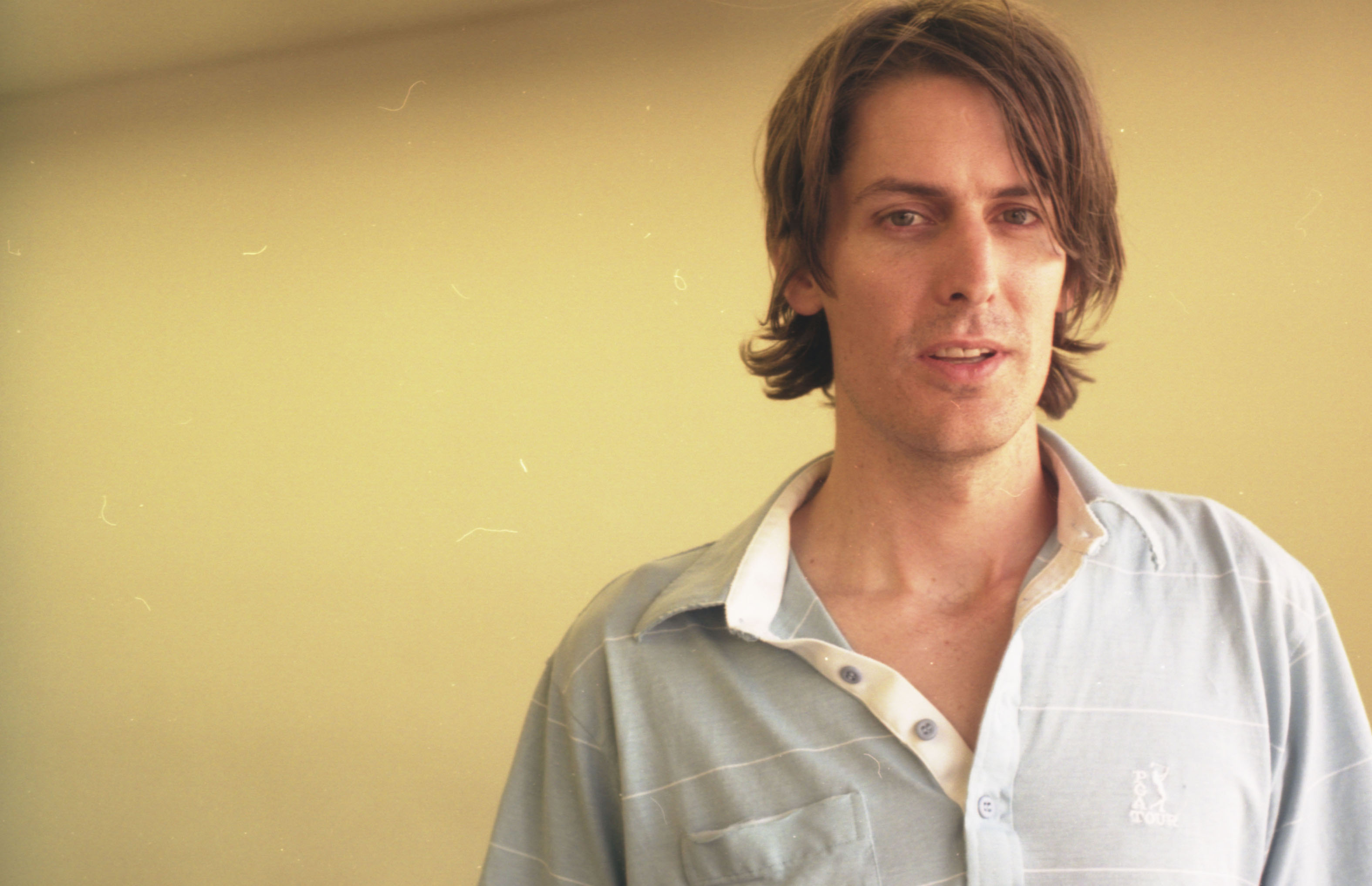 Stephen Malkmus ex member of Pavement in Tokyo, Japan